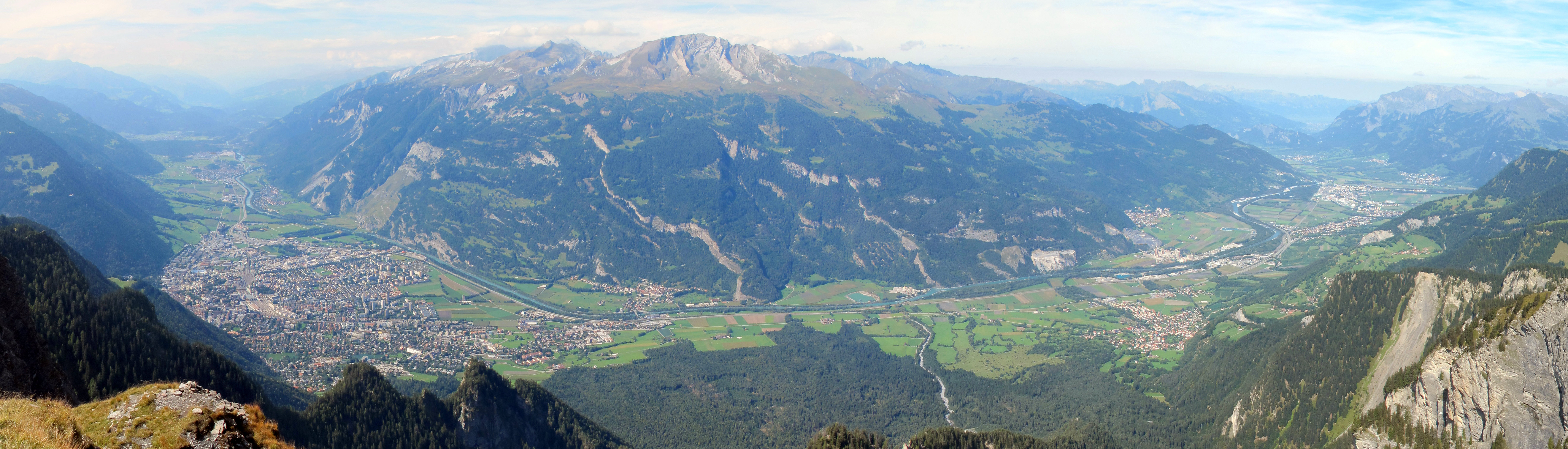 135°-Panorama over Churer Rheintal, picture taken from Montalin (2266), Chur, Trimmis, Calfreisen, Grisons, Switzerland, Panorama